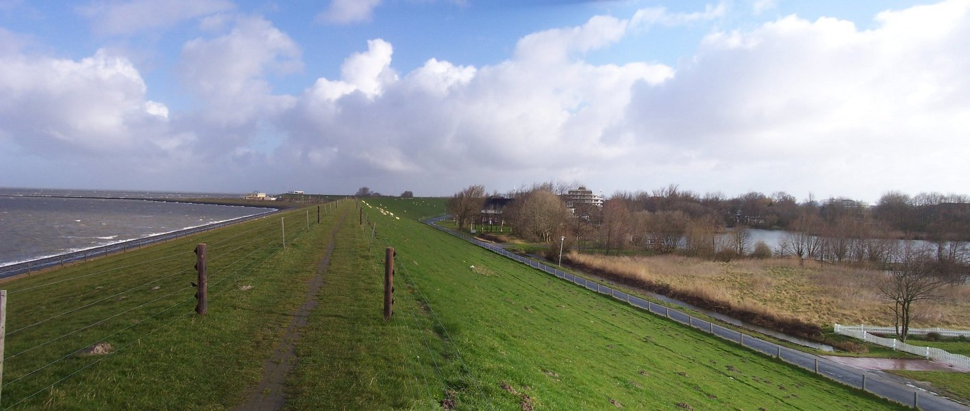 Sea dyke near Tossens in the district of Wesermarsch, Germany.